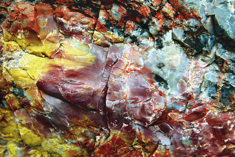 Detail inside petrified wood, Petrified Forest National Park, Arizona, USA